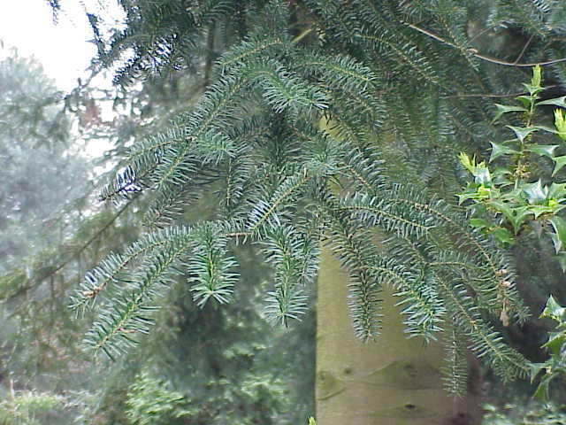 Species: Abies homolepis Family: Pinaceae Image No. 1